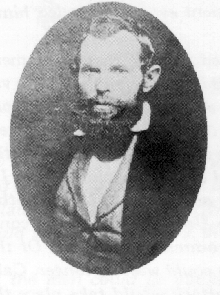 Portrait of Watson Brown, son of John Brown participator of John Brown's raid on Harpers Ferry, and survivor who died in California.